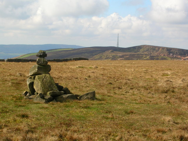 Cairn on Easington Fell, 1300'/396m